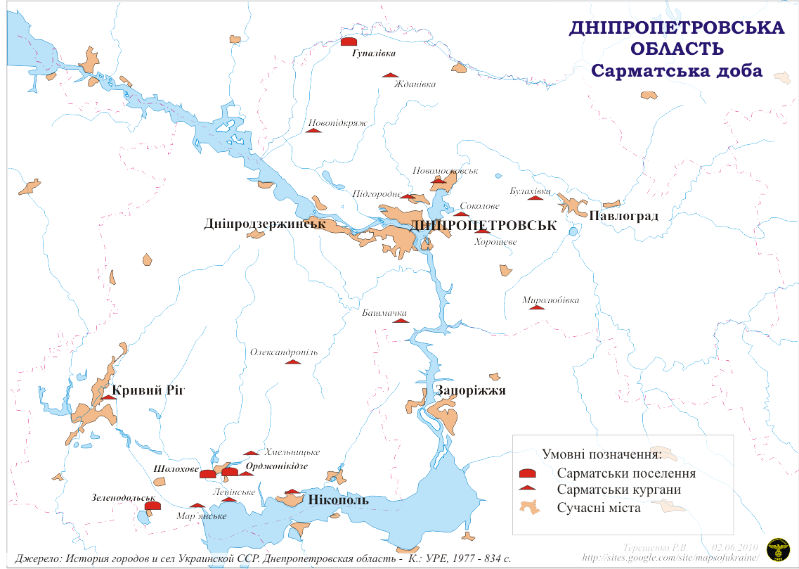 Dnipropetrovsk region. Archaeological sites Sarmatian period.